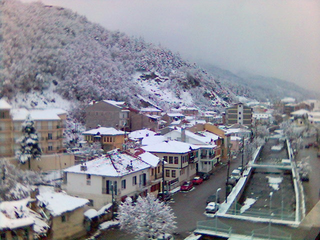 River Sakoulevas in Florina (city), Greece.